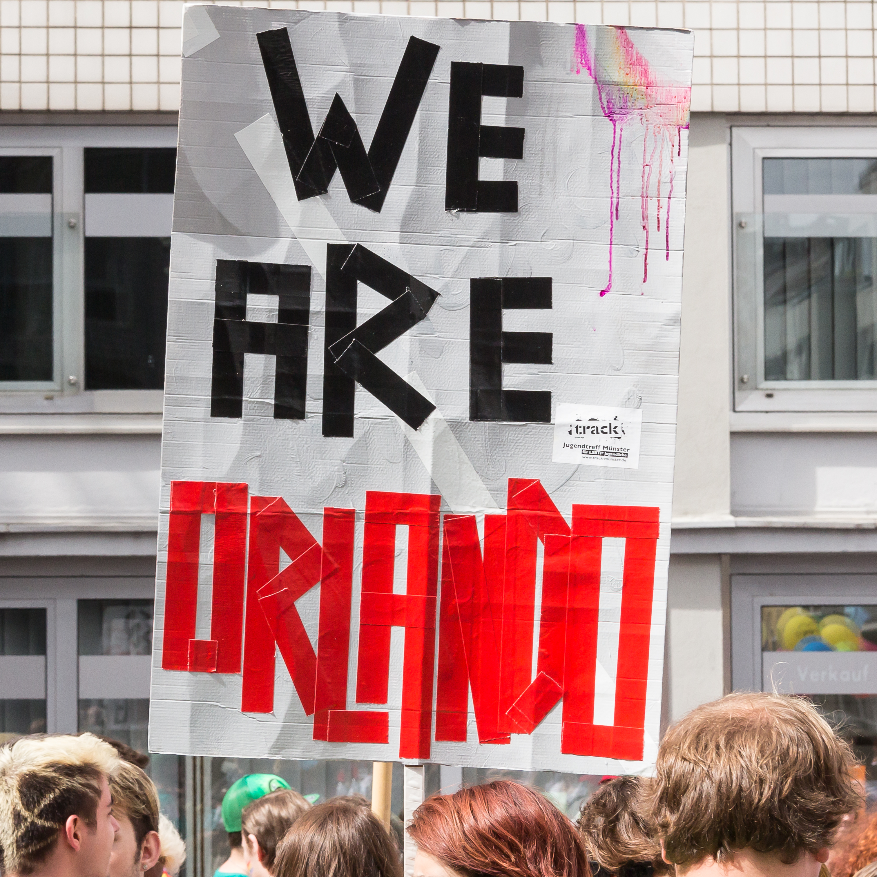 Participants on the political demonstration ColognePride/CSD